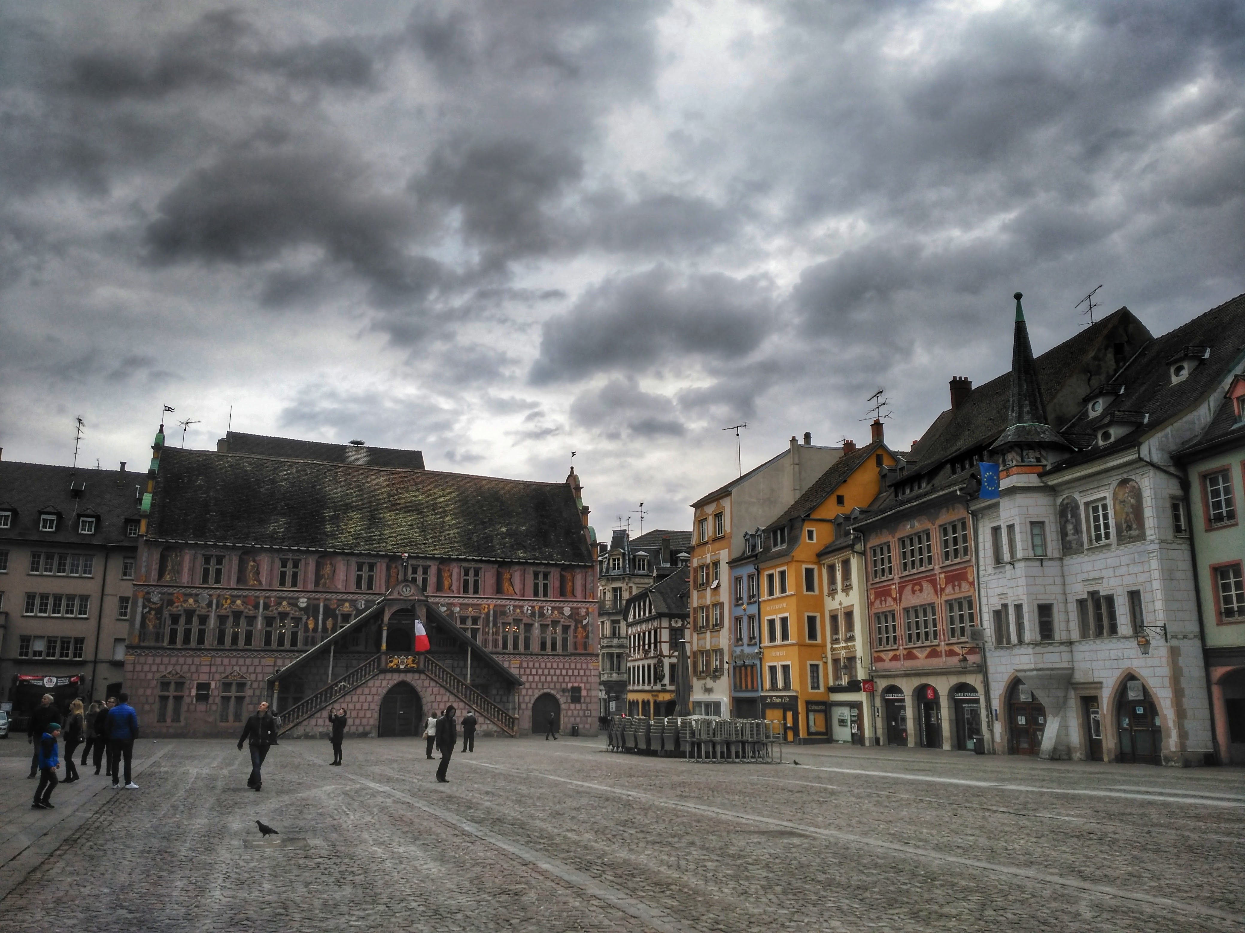 Mulhouse Main Square